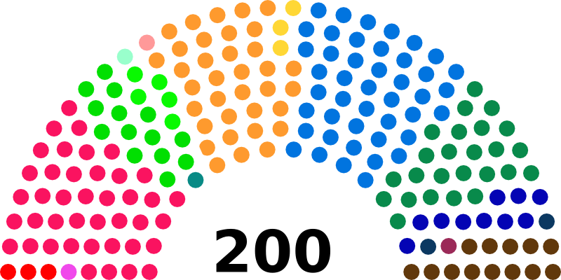 Seats diagramme of Swiss National Council (1991)